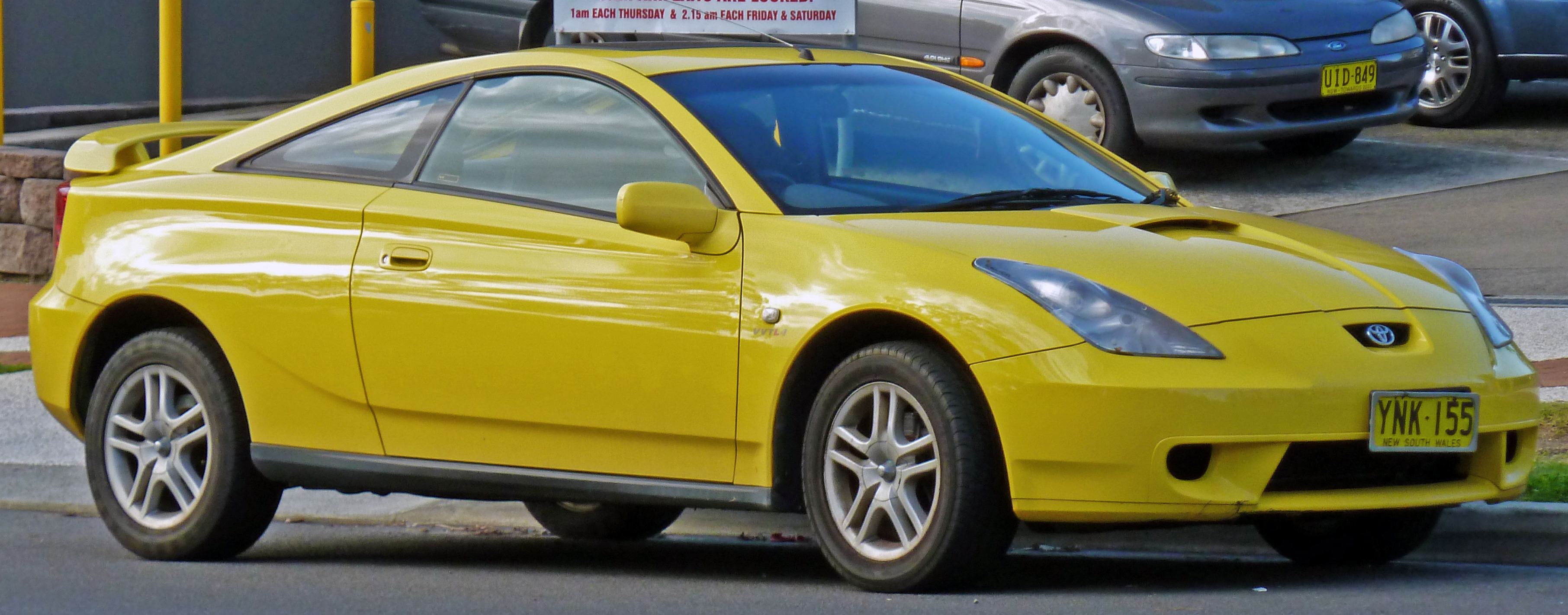 2001 Toyota Celica (ZZT231R) SX liftback. Photographed in Miranda, New South Wales, Australia.